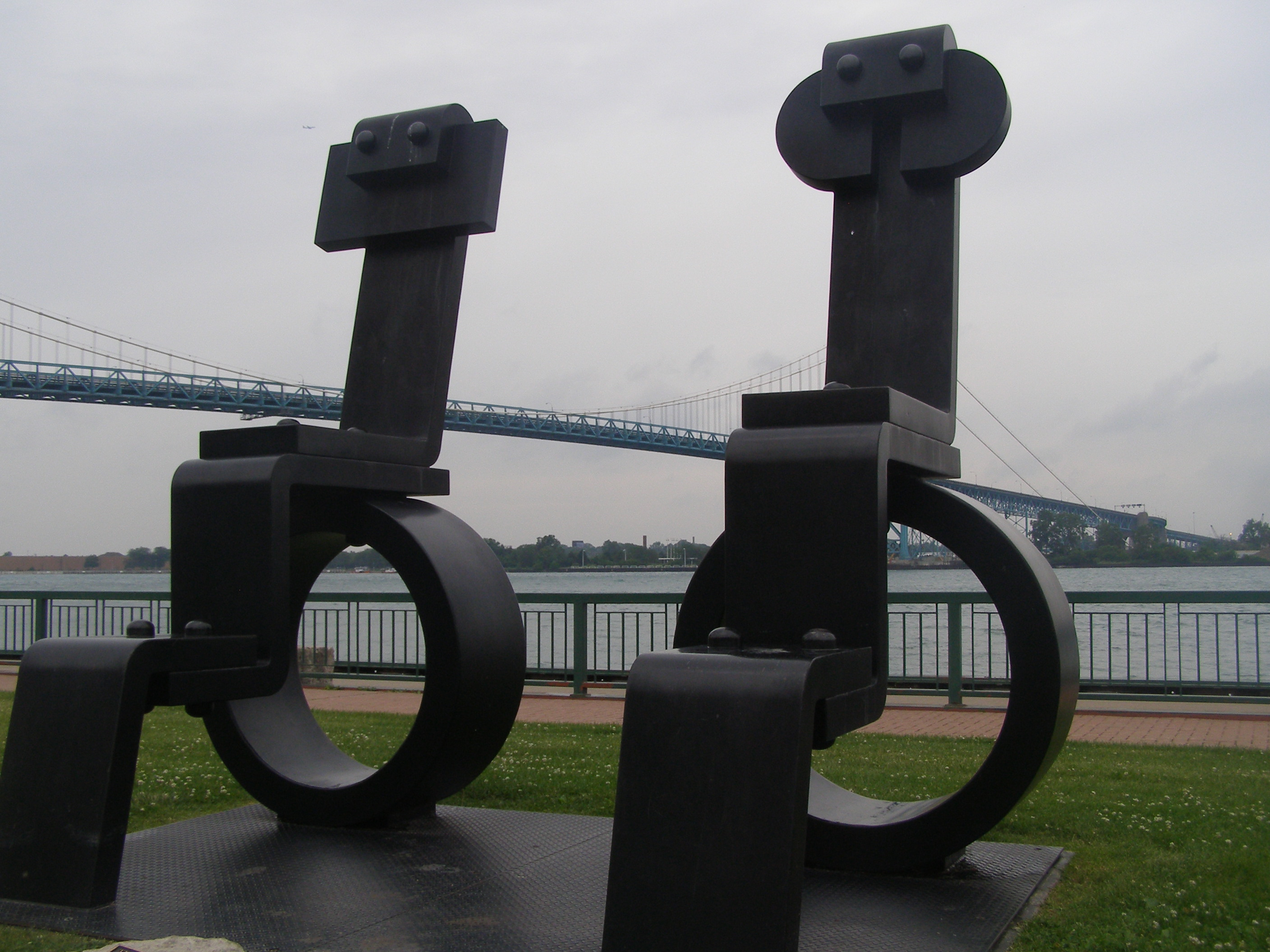 Sculpture King and Queen by Sorel Etrog in Windsor, Ontario/Canada